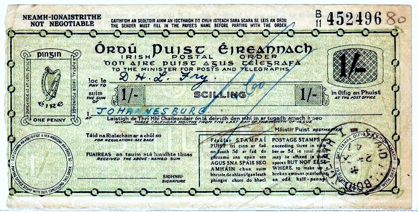 1/- (one shilling) Postal Order of Ireland issued in 1941 in Talbot Street, Post Office, Dublin for payment in Johannesburg